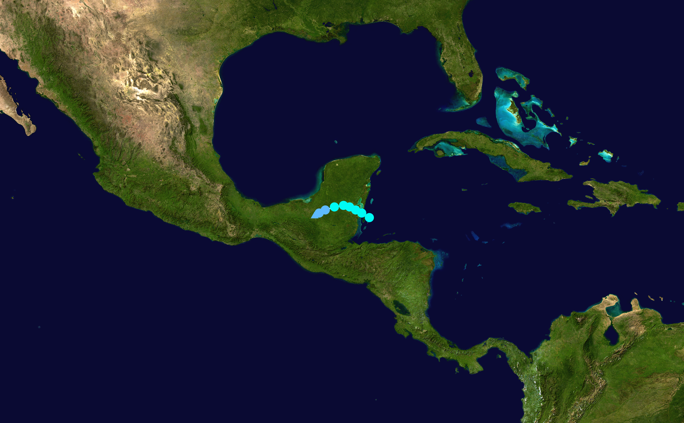 Track map of Tropical Storm Arthur of the 2008 Atlantic hurricane season. The points show the location of the storm at 6-hour intervals. The colour represents the storm's maximum sustained wind speeds as classified in the Saffir–Simpson scale (see below), and the shape of the data points represent the nature of the storm, according to the legend below. Saffir–Simpson scale Tropical depression≤38 mph≤62 km/h Category 3111–129 mph178–208 km/h Tropical storm39–73 mph63–118 km/h Category 4130–156 mph209–251 km/h Category 174–95 mph119–153 km/h Category 5≥157 mph≥252 km/h Category 296–110 mph154–177 km/h Unknown Storm type Tropical cyclone Subtropical cyclone Extratropical cyclone / Remnant low / Tropical disturbance / Monsoon depression